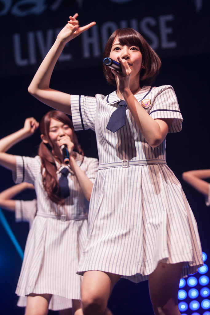 Nogizaka46 in Japan Expo 2014, Nanami Hashimoto in front, Sayuri Matsumura at rear.